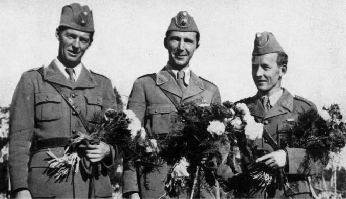 Sweden's Gold Medal team in the Three-Day event. Left to right: Frölén, Blixen-Finecke and Stahre.